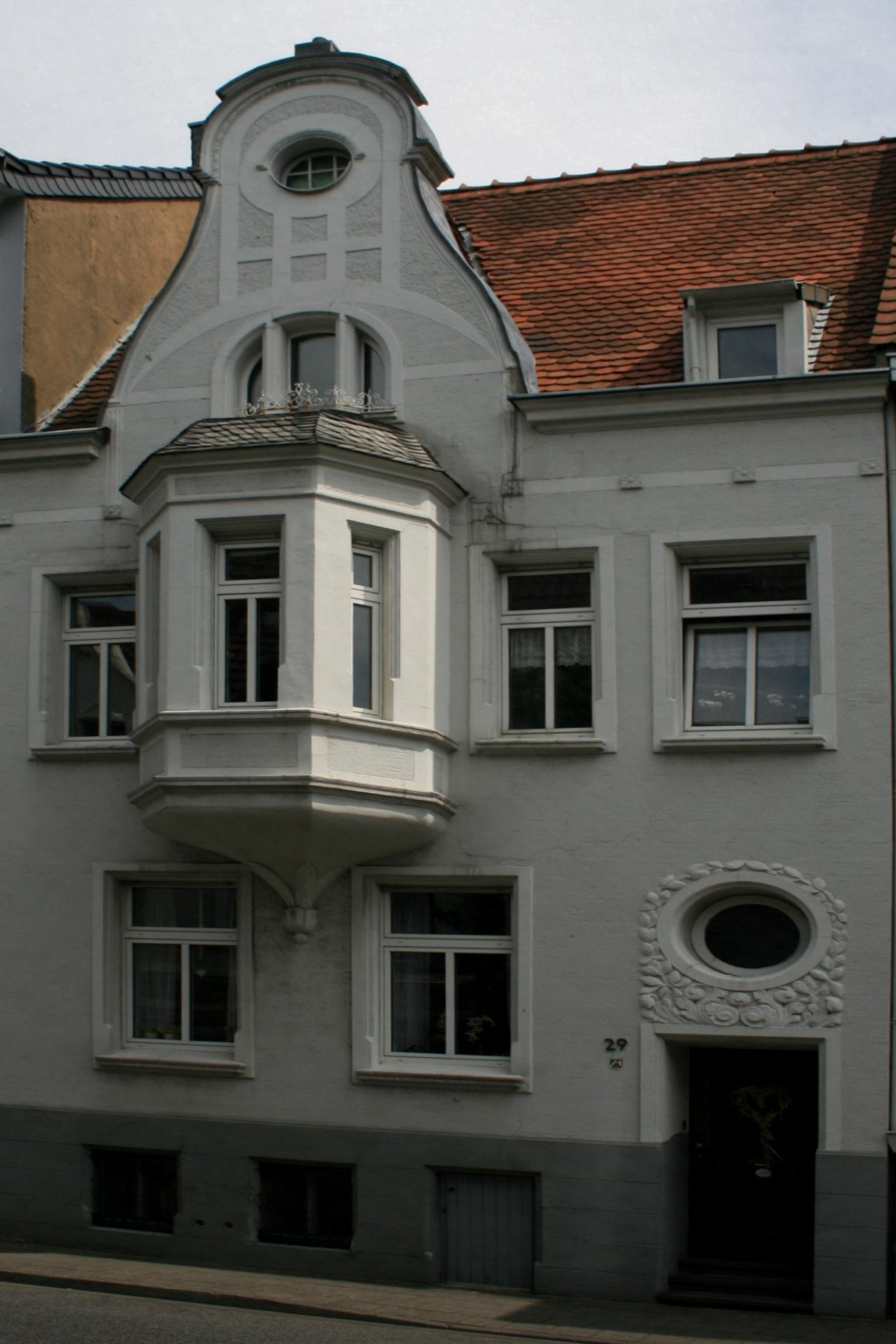 Cultural heritage monument No. B 160 in Mönchengladbach